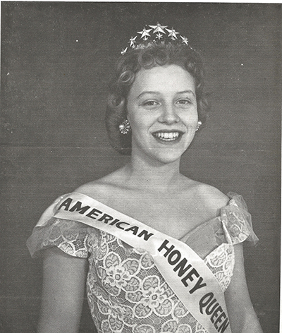 Esther Kay Seidelman Whan, 1959 American Honey Queen